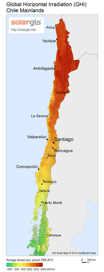 Solar Radiation Map: Global Horizontal Irradiation Map of Chile, SolarGIS.